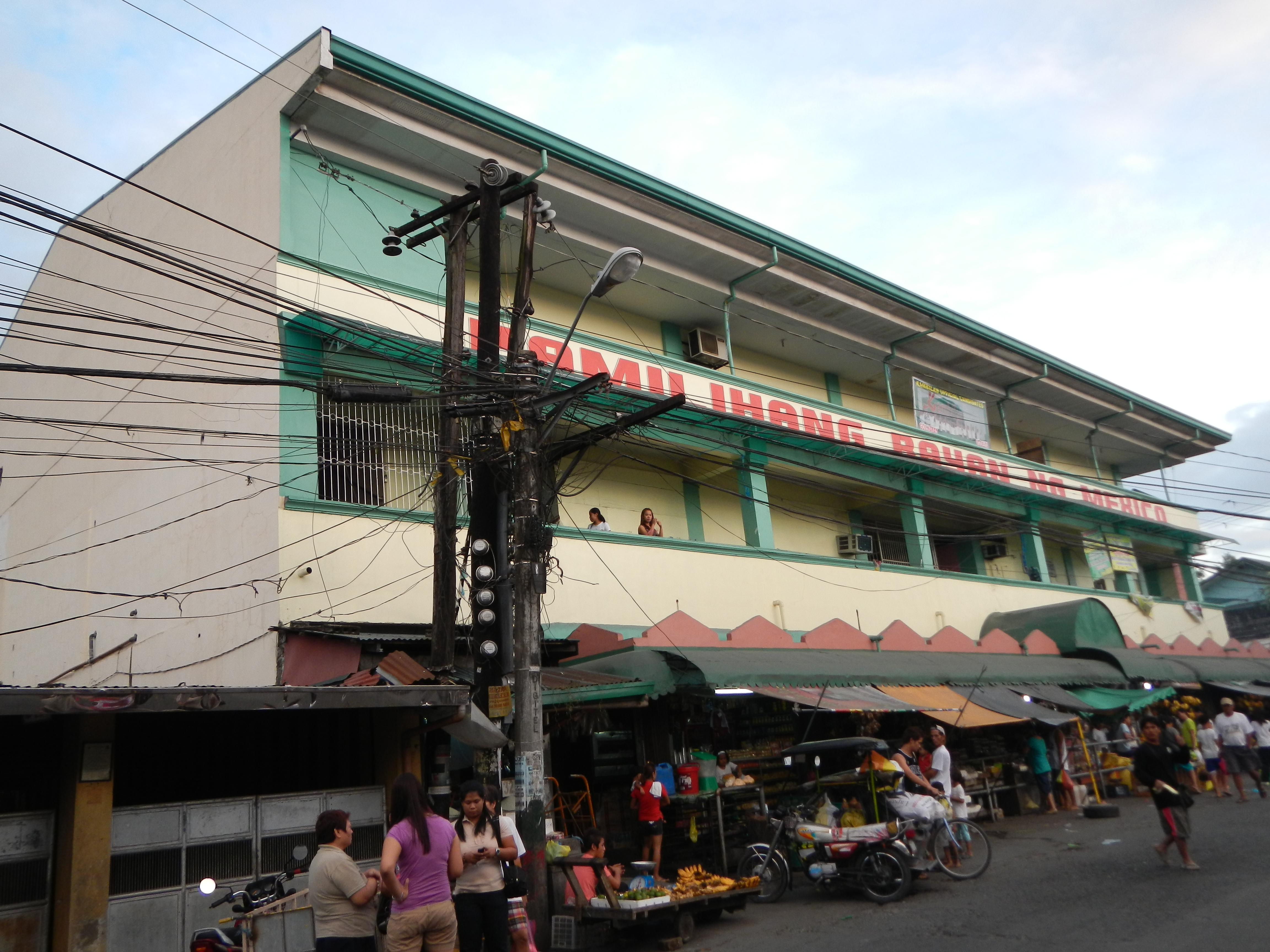 Mexico, Pampanga[1]